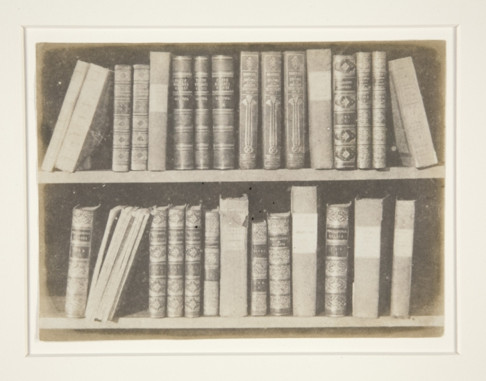 "A Scene in a Library, Plate VIII from The Pencil of Nature," salt print from a wax paper negative, by the British photographer William Henry Fox Talbot. 5 1/8 in. x 7 in. Yale University Art Gallery, gift of George Hopper Fitch, B.A. 1932. Courtesy of Yale University, New Haven, Conn.